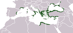 Locator map depicting the ancient Greek world, c. 550 BC